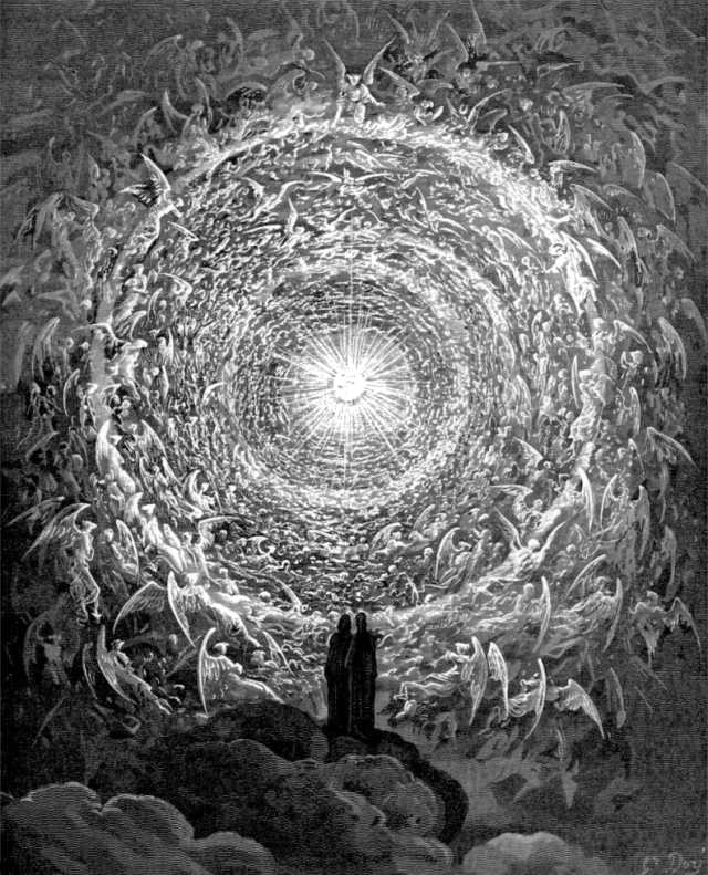 The Empyrean (highest heaven), from the illustrations to The Divine Comedy by Gustave Doré.